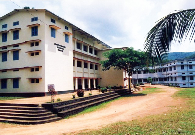 J.J Murphy Higher Secondary School, Yendayar